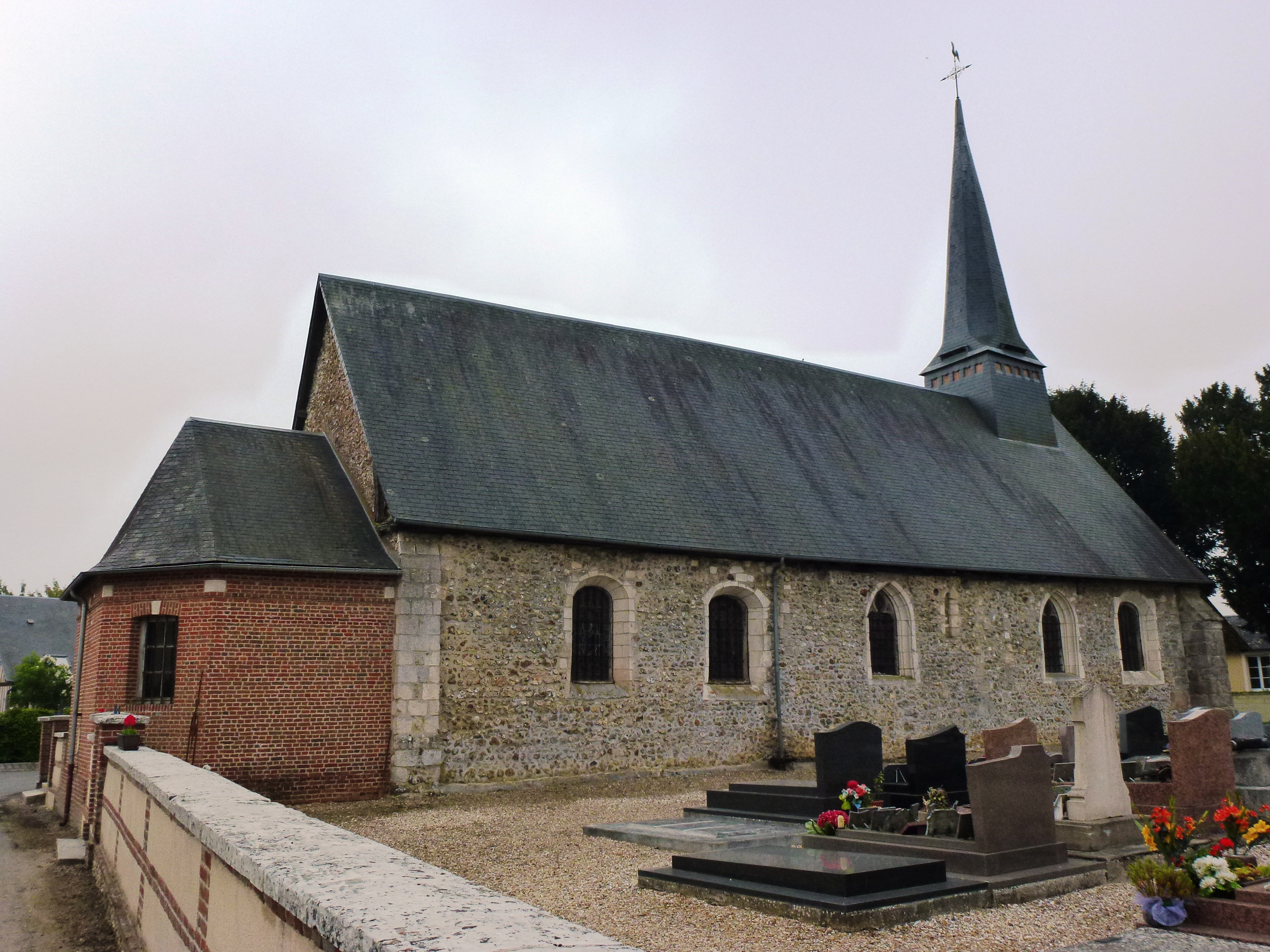 Saint-Martin-du-Tilleul (Eure) église